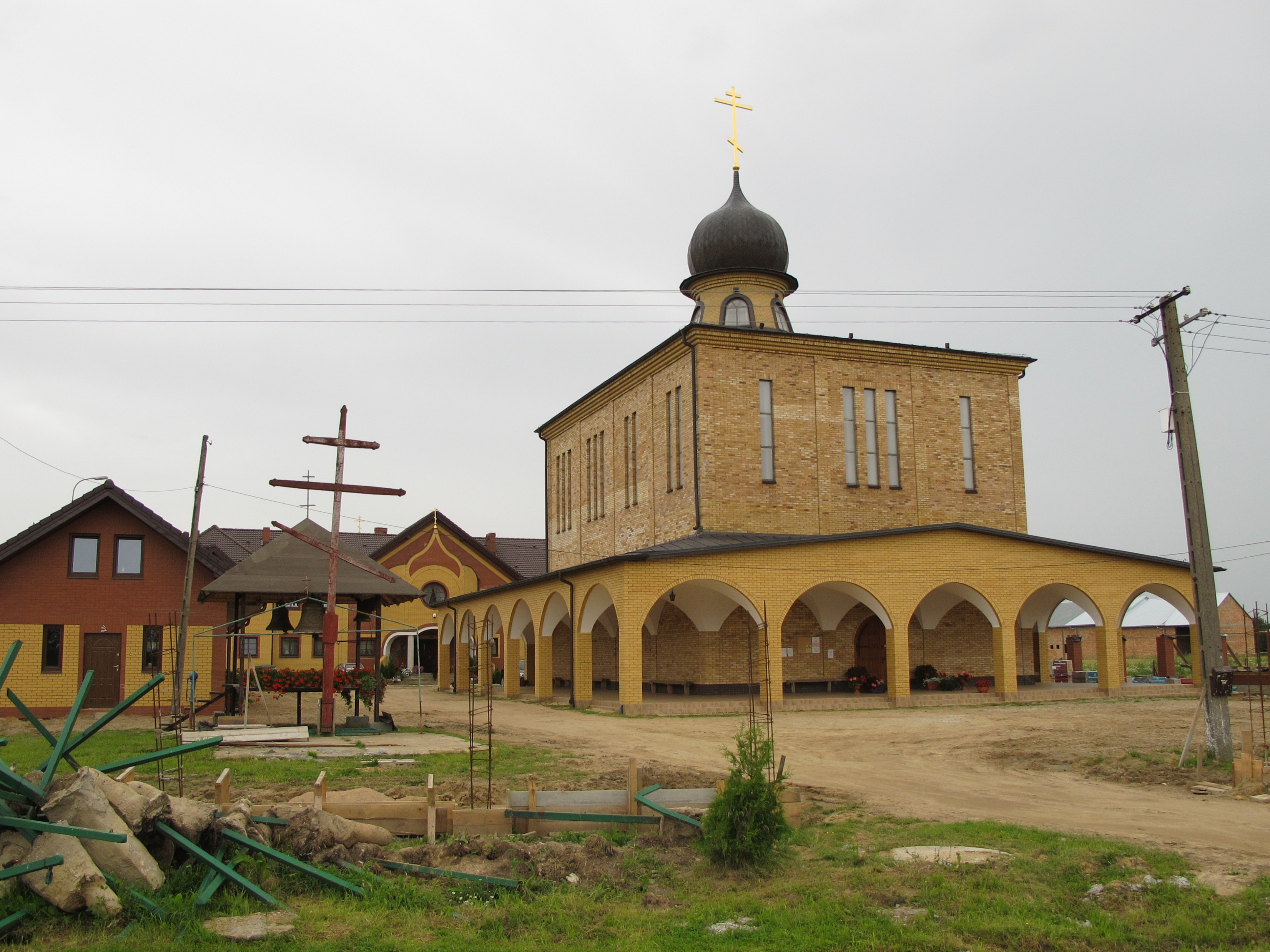 Gavriil of Belostok church by the Nativity of the Blessed Virgin Mary orthodox monastery in Zwierki, gmina Zabłudów, podlaskie, Poland